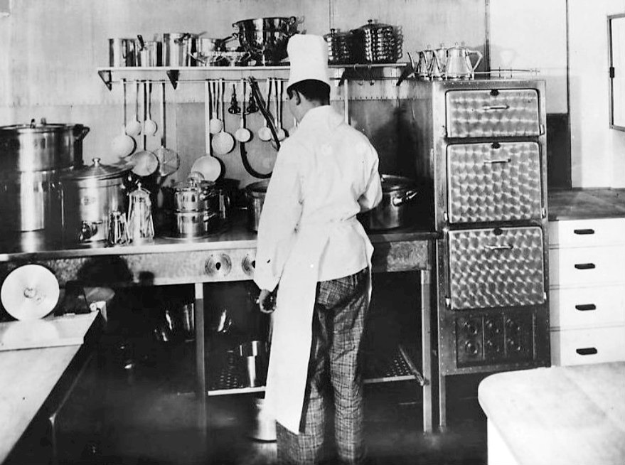 Photo of the all-electric kitchen of the Hindenburg.